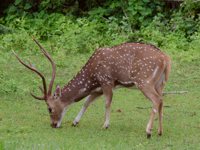 Axis deer in Yala National Park, Sri Lanka